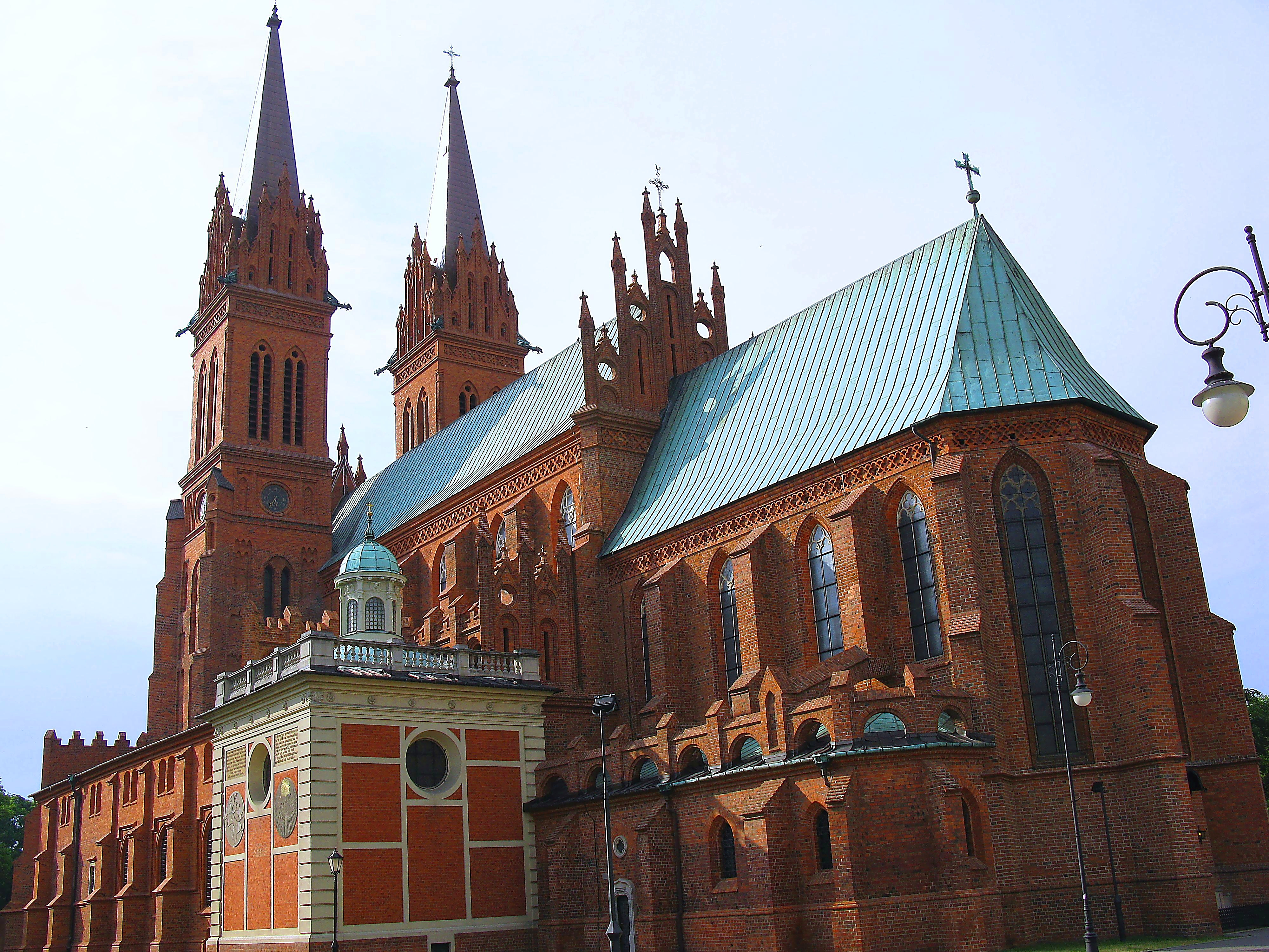 Włocławek Cathedral